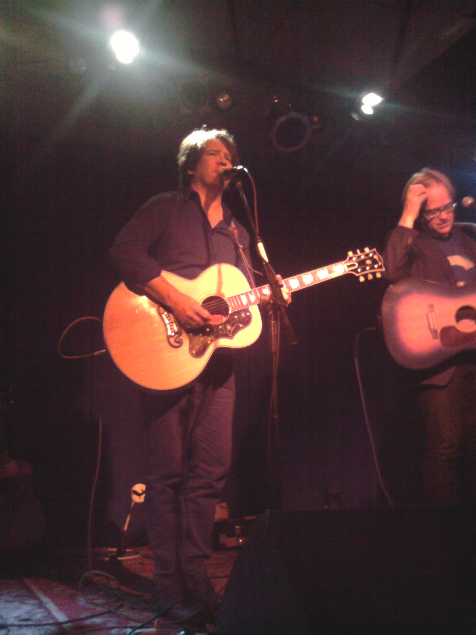 Grant-Lee Phillips on stage at Jammin' Java in Vienna, VA on November 20th, 2009. Philip Price (of the Winterpills) in the background.